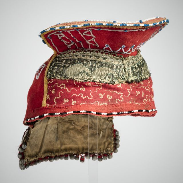 Skolt Saami wife's headdress šaamšiǩ. Part of the collection at the National Museum of Finland.